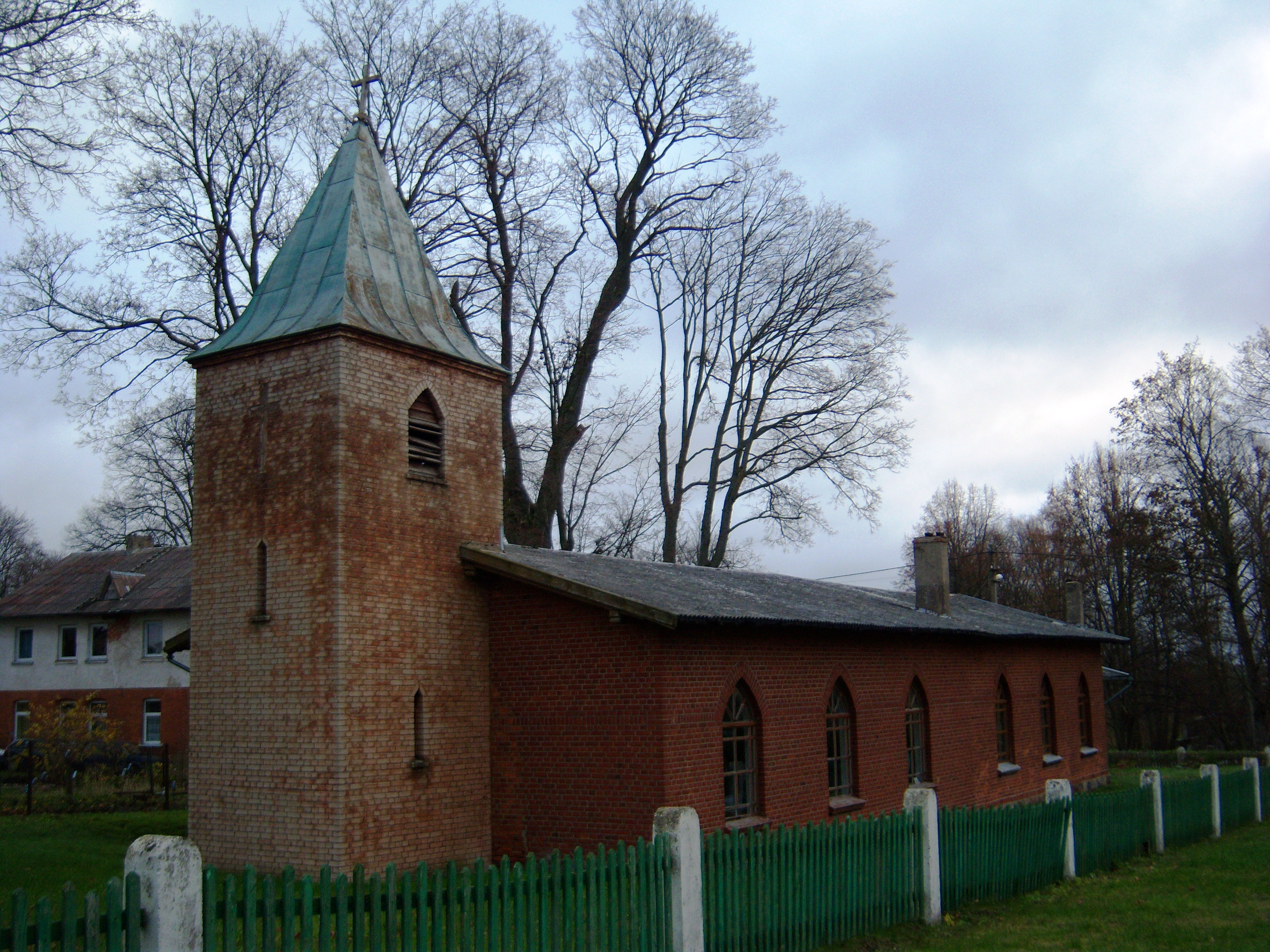 Evangelical Lutheran Church in Priekulė, Klaipėda District, Lithuania